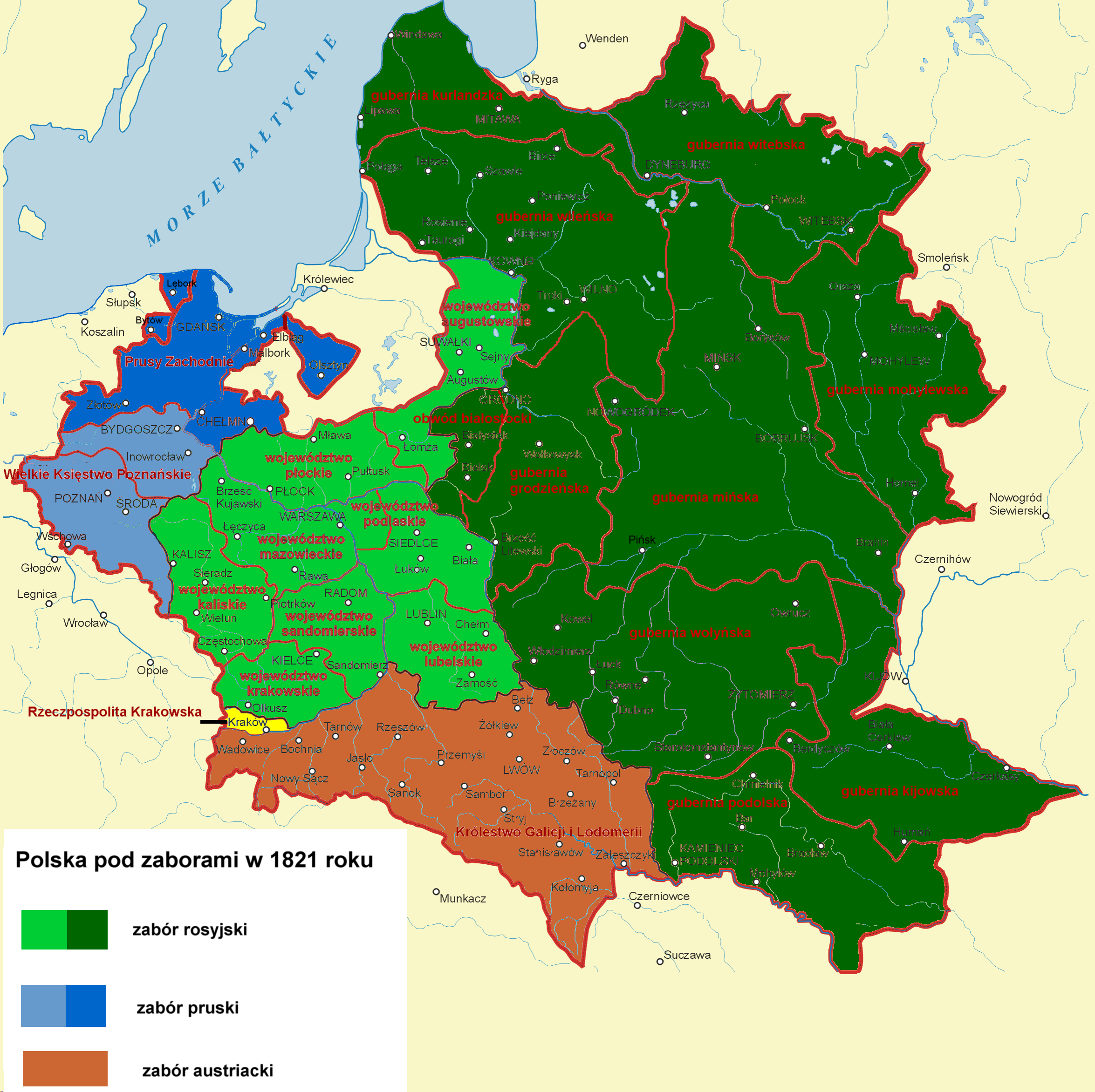 Partitioned Poland in 1821